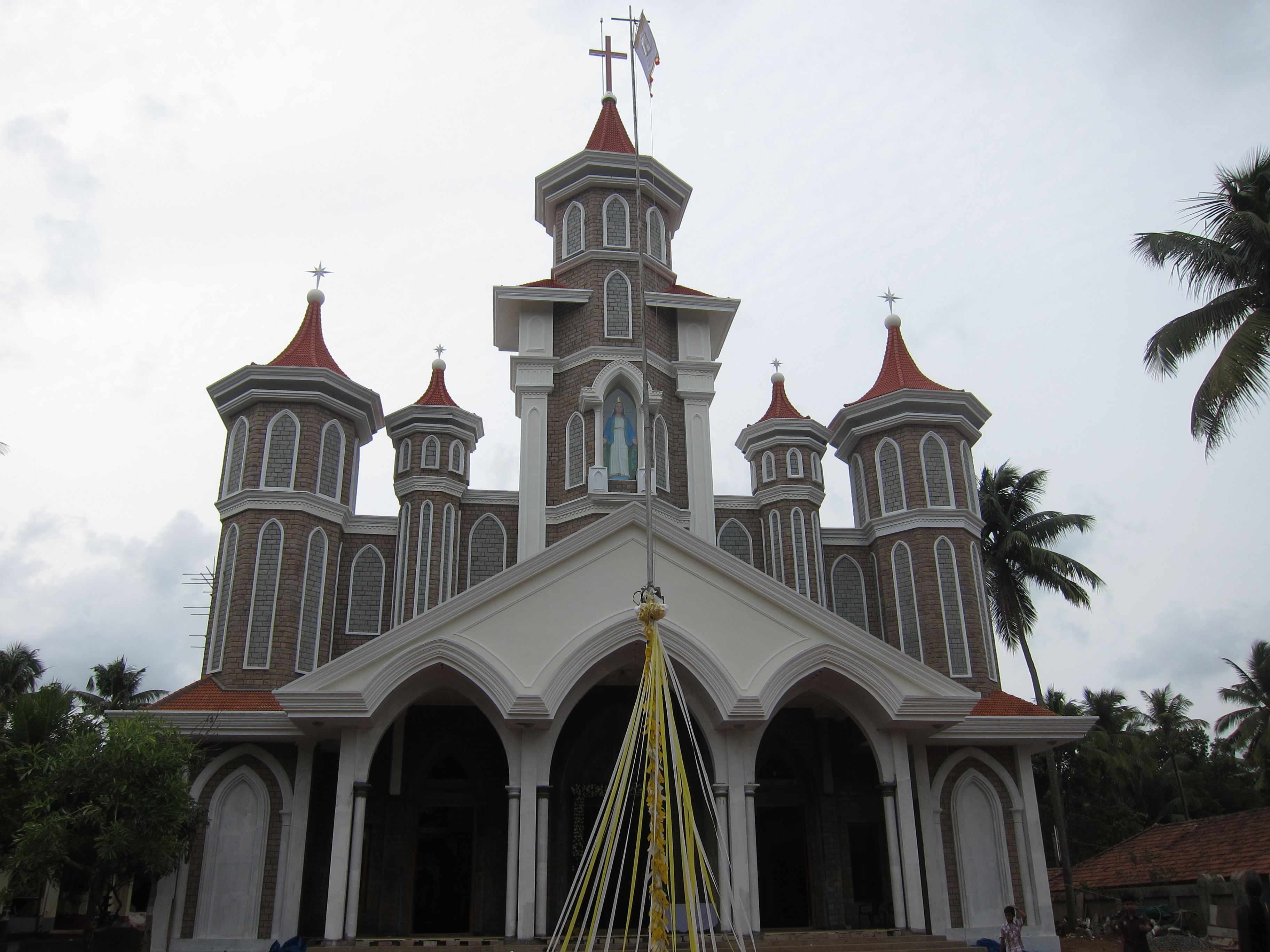 Thuruthiprambu Church - തുരുത്തിപറമ്പ് പള്ളി Our Lady of Grace Church, Thuruthiparambu - വരപ്രസാദ നാഥ ദേവാലയം, തുരുത്തിപ്പറമ്പ് Irinjalakuda Diocese - ഇരിങ്ങാലക്കുട രൂപത Thrissur Arch-Diocese - ത്രിശ്ശൂർ അതിരൂപത Thrissur District - ത്രിശ്ശൂർ ജില്ല 6 k.m away from Chalakudy - ചാലക്കുടിയിൽ നിന്ന് 6 കി.മി ദൂരം